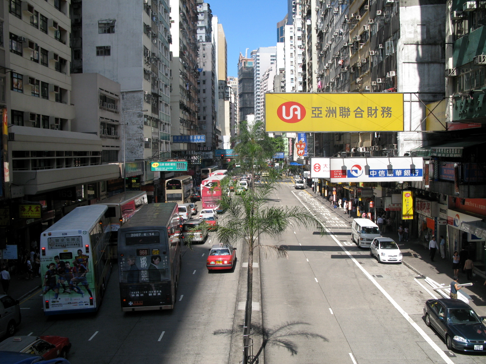 軒尼詩道 灣仔段 HK Hennessy Road (Wan Chai Section)